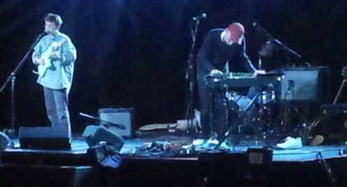 Florist photographed in Montréal, Québec, Canada at the Fairmount Theatre.